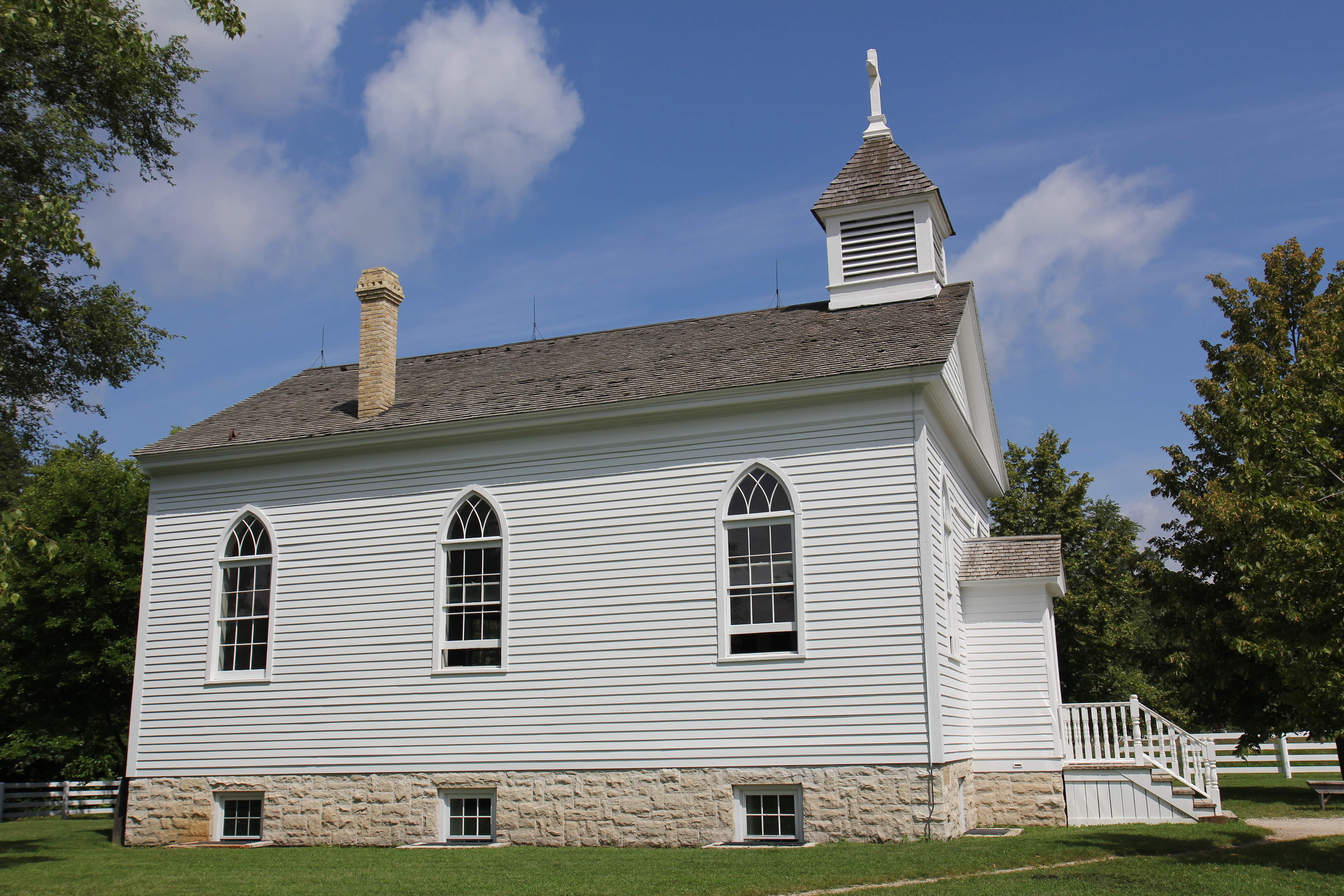 St. Peter's Catholic Church at Old World Wisconsin.